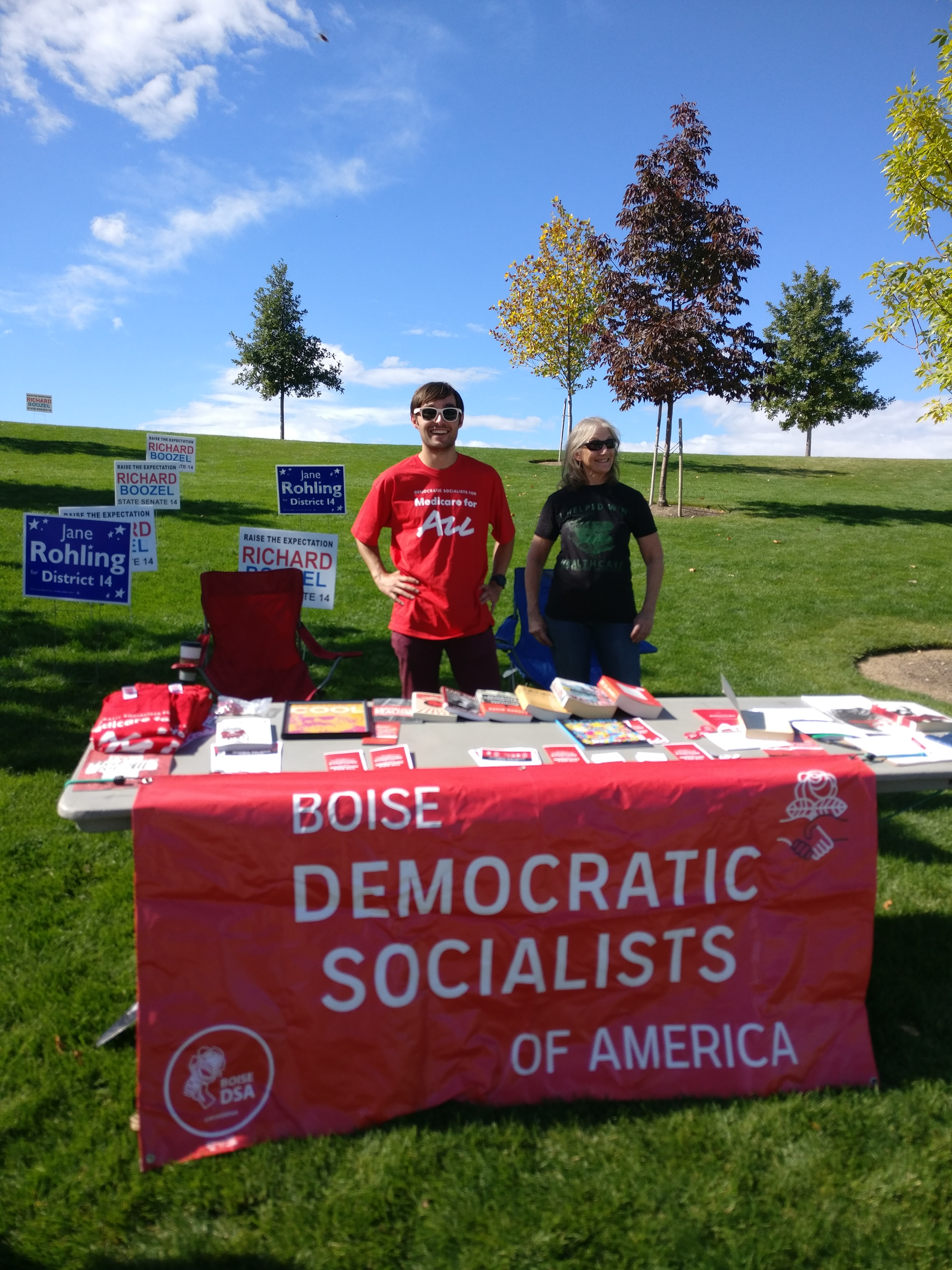 Two of the founding members of the Boise Idaho chapter of the DSA at a big tent event featuring Democratic candidates for office and diverse advocacy groups held at Julius M. Kleiner Memorial Park in Meridian, Idaho in late September 2018.